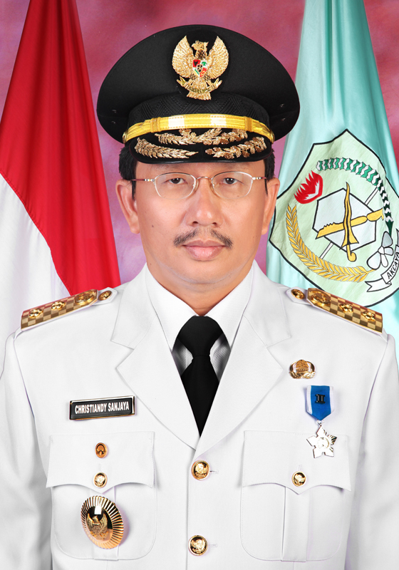 Christiandy Sanjaya in 2013